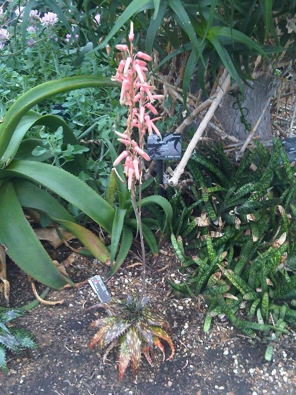 Aloe somaliensis at Kew Gardens, England.